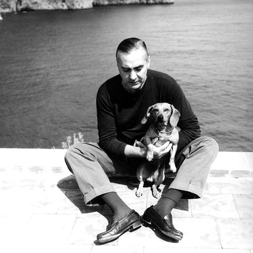 Malaparte in Capri, with a dog